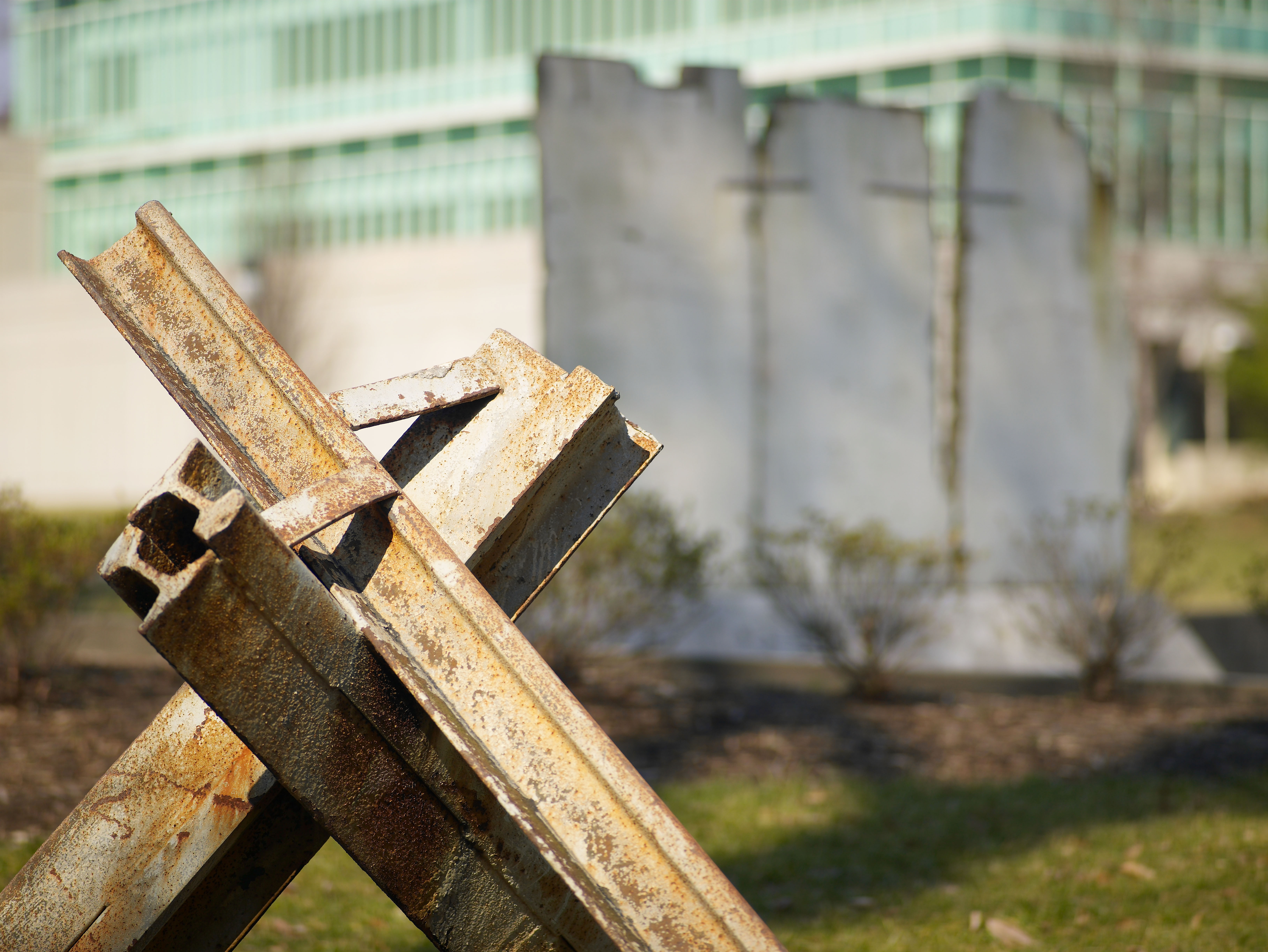 Description from Flickr: In stark contrast, the east side of the wall is plain and devoid of color and life. The Wall is located in the middle of a path so that it must be confronted directly — just as it was for nearly three decades by the citizens of Berlin. On both sides of the Wall is a bench-height wall where employees can sit and view the three segments.